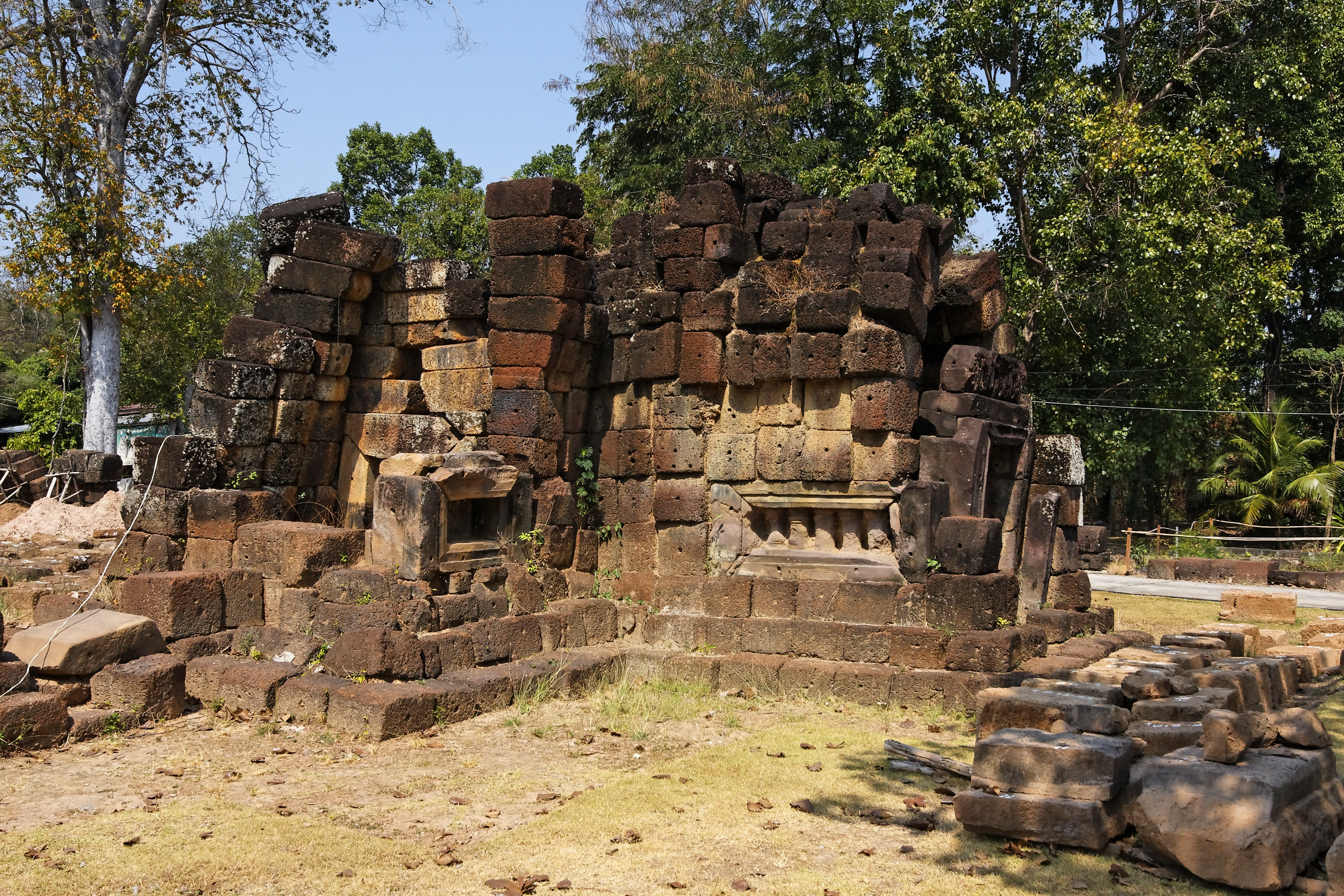 Prasat Sa Kamphaeng Noi, Thailand